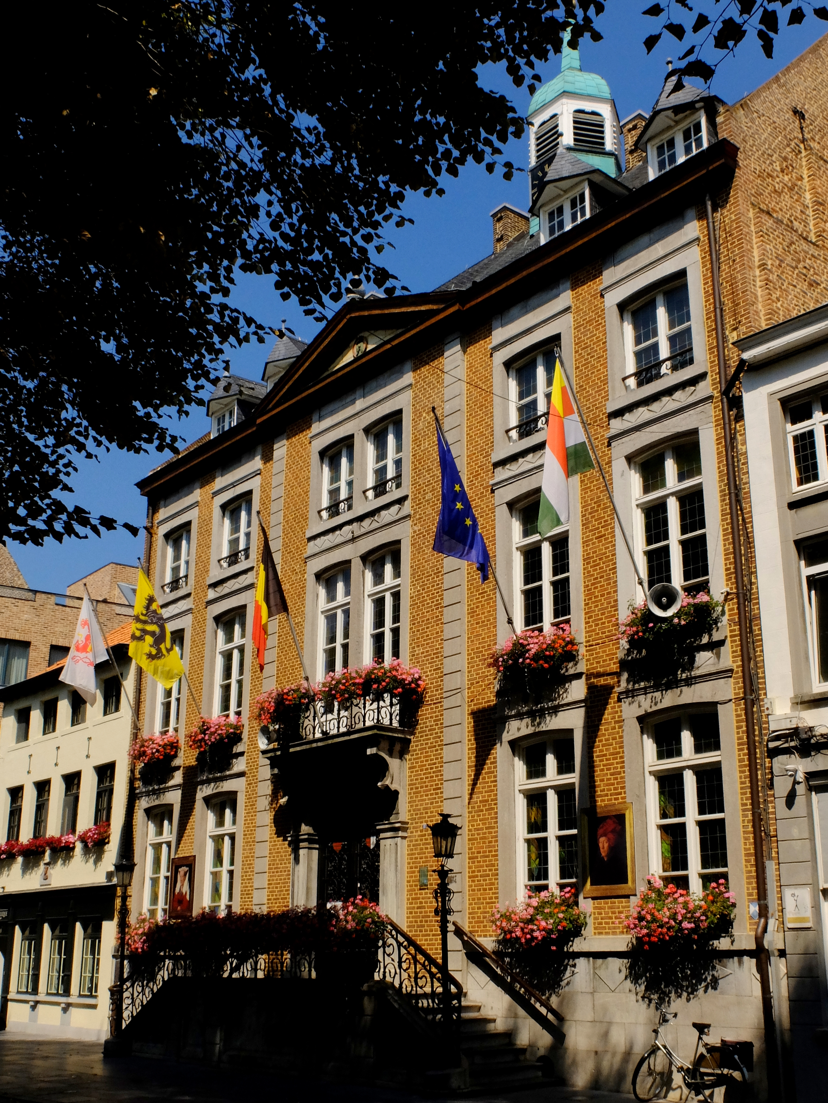 Maaseik, Belgium. City Hall